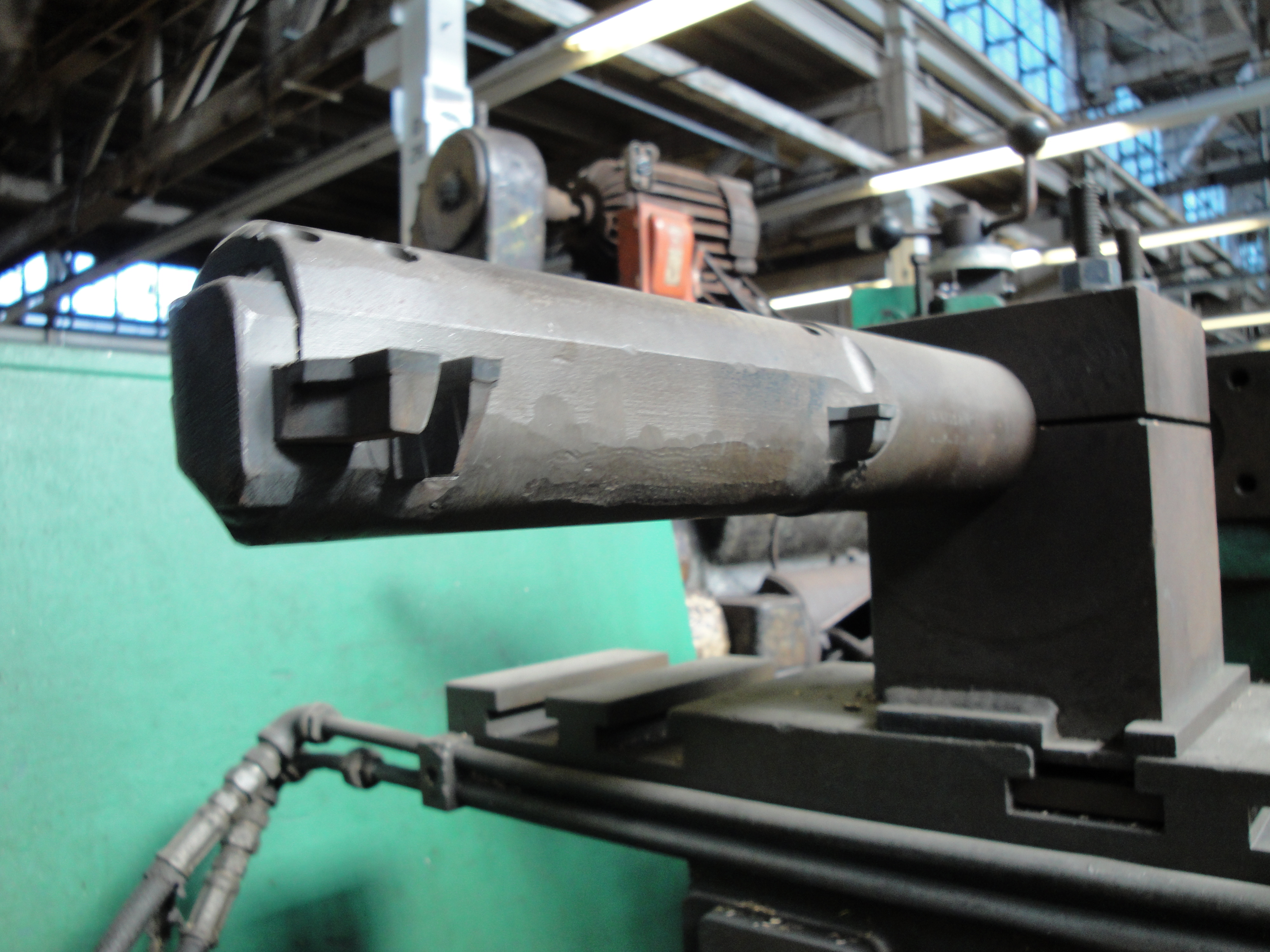 A view from the business end of a boring bar.